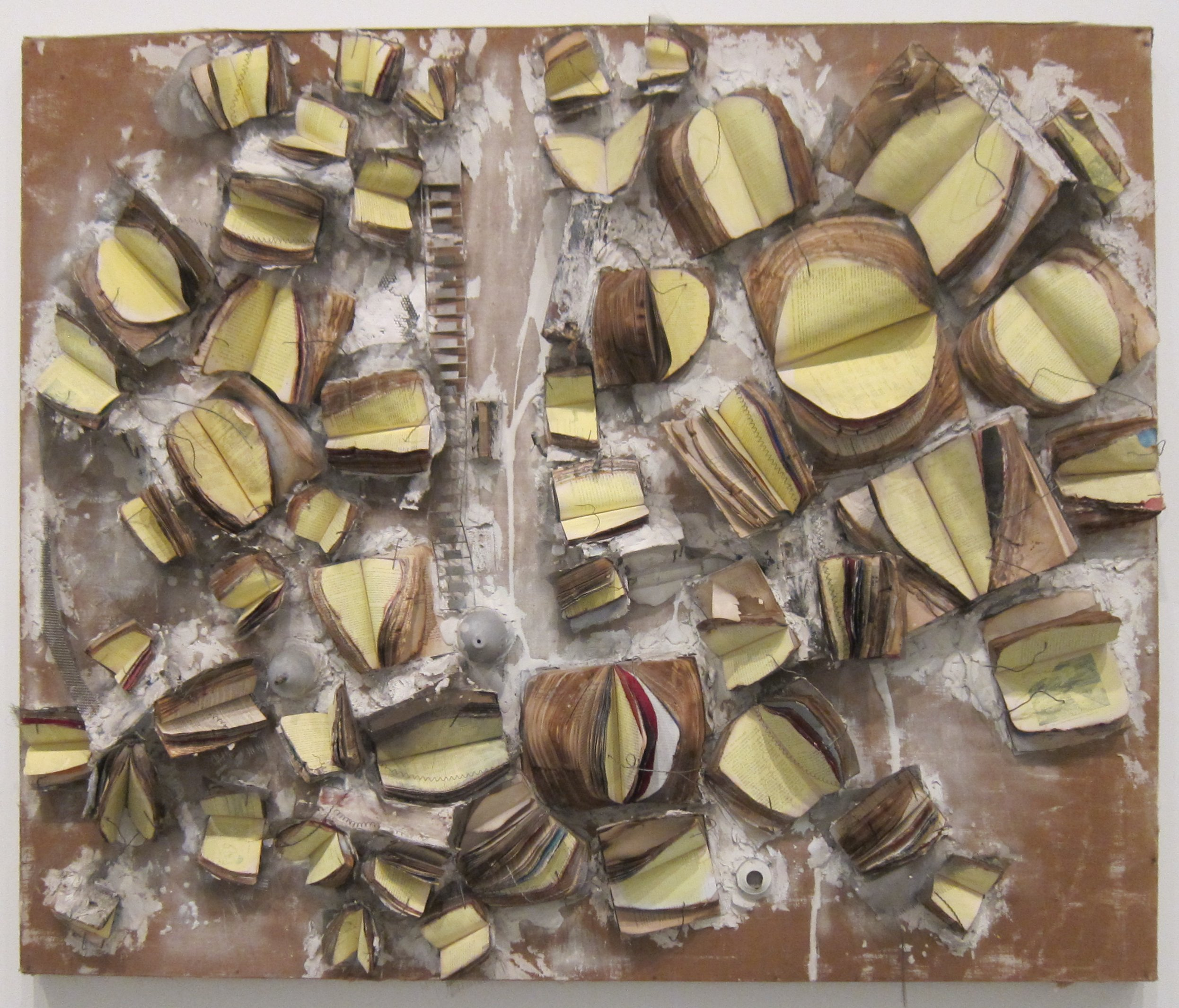 Film Star, books, plaster and metal on canvas work by John Latham, 1960, Tate Modern